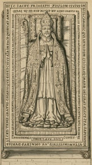 Benjamin de Brichanteau